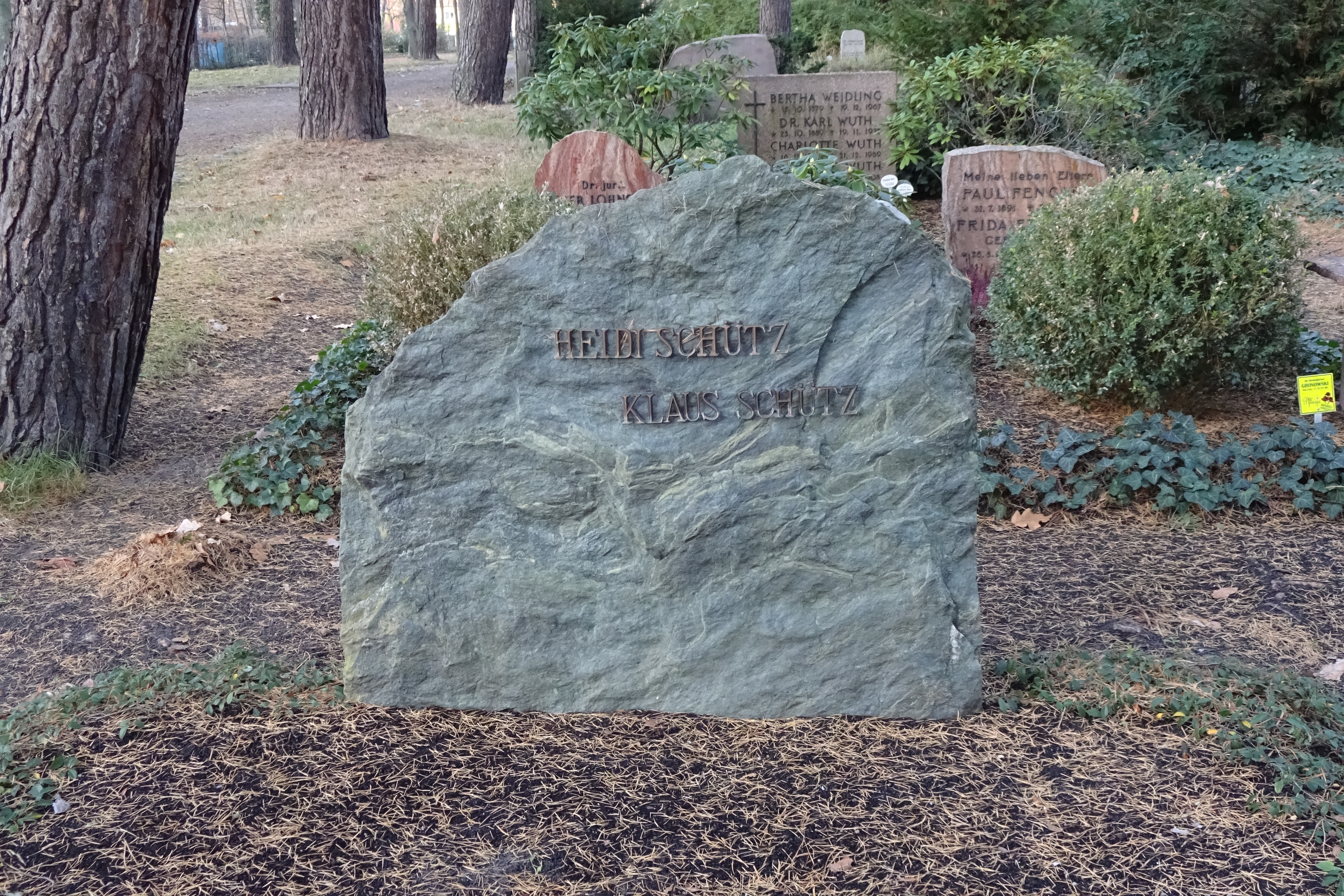 Honory grave of former Governing Mayor of Berlin Klaus Schütz in Waldfriedhof Zehlendorf in Berlin